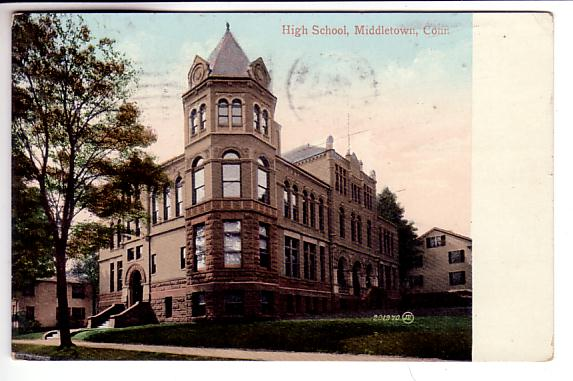 Postcard: (former) Middletown High School, Middletown, Connecticut, 1909 postmark Description: "1909 High School Middletown Connecticut Postcard. Postmarked 1909 from Middletown."